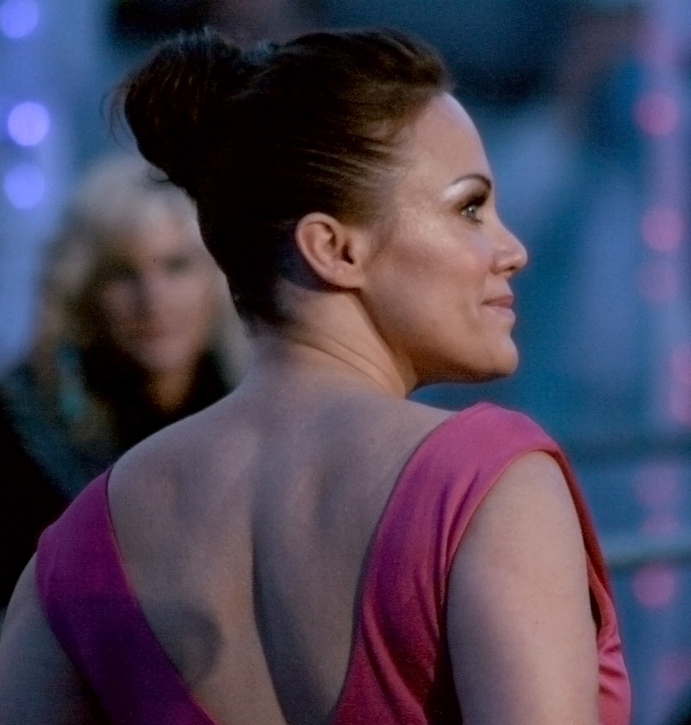 Sonja Kirchberger at the Life Ball 2009, Rathaus, Vienna.